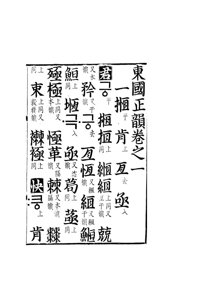 동국정운 Dictionary of Korean Pronunciation of Chinese Letters King Sejong published this pronunciation dictionary to evaluate newly invented Korean letters, Hangul. National Treasure 71